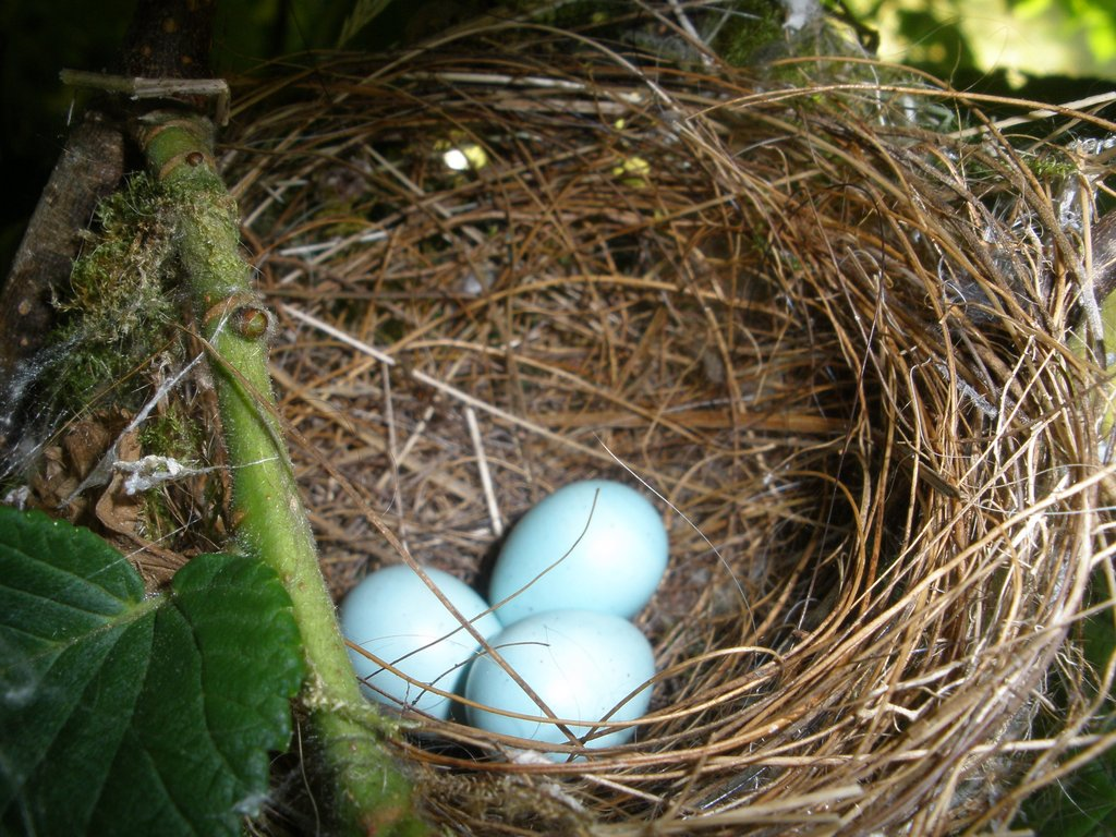 Waxeye Eggs found in a nest in an umbrella tree in the backyard of a house on East Street in Greytown, Wairarapa, New Zealand.